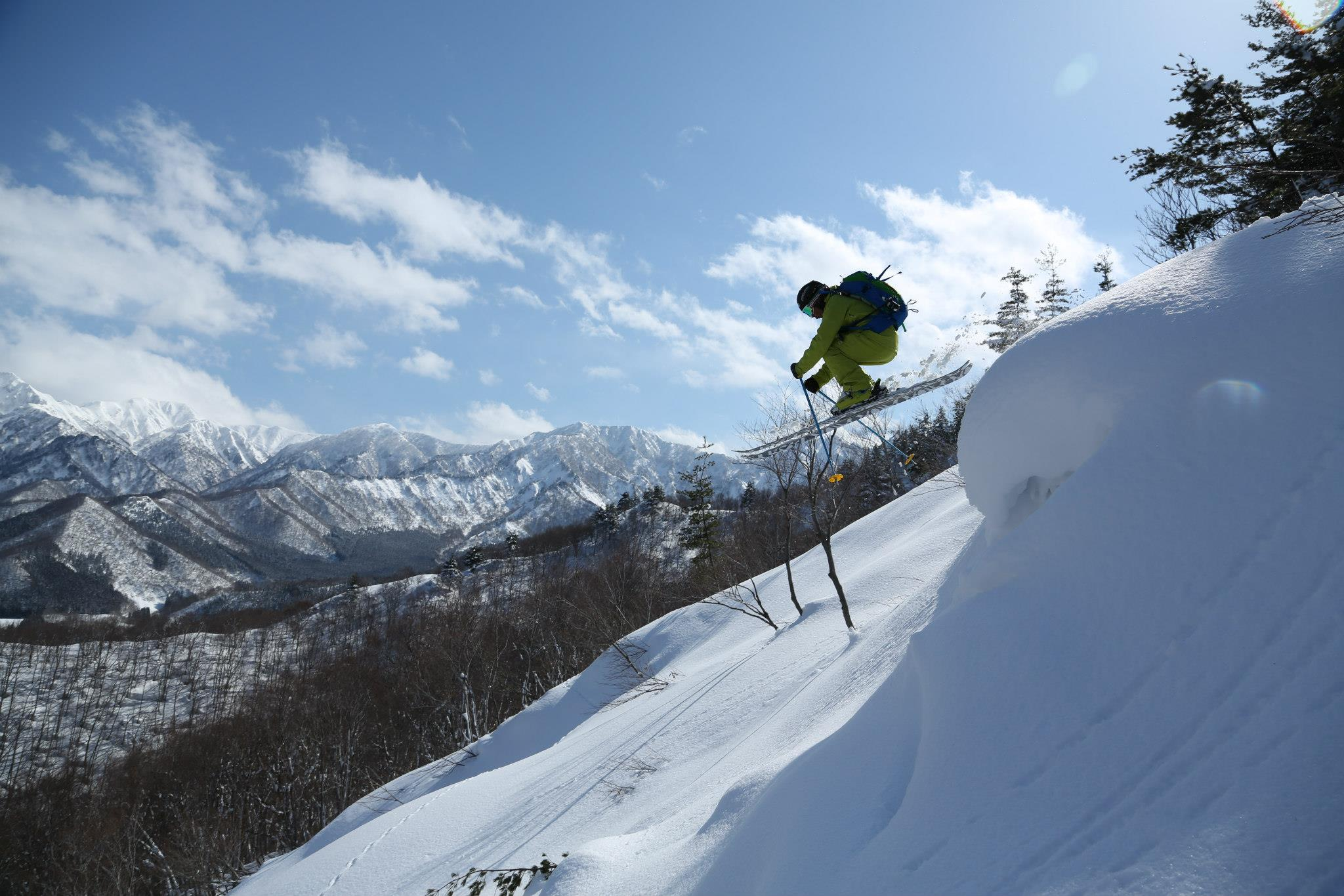 Shooting at Niigata,JPN